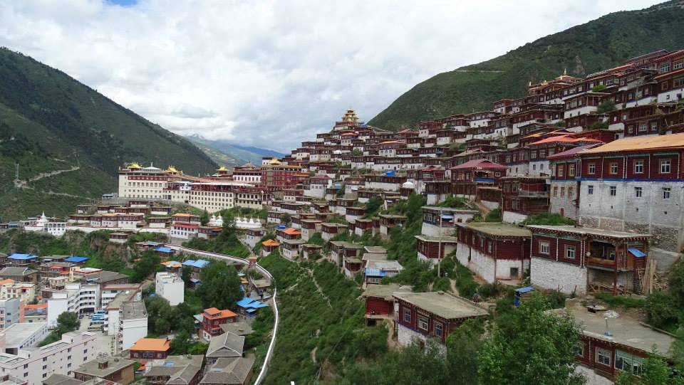 Palyul Monastery of Tibet